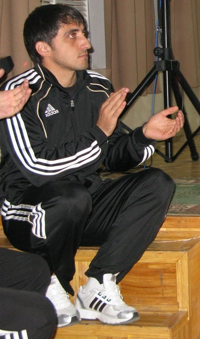 Shamil Burziyev